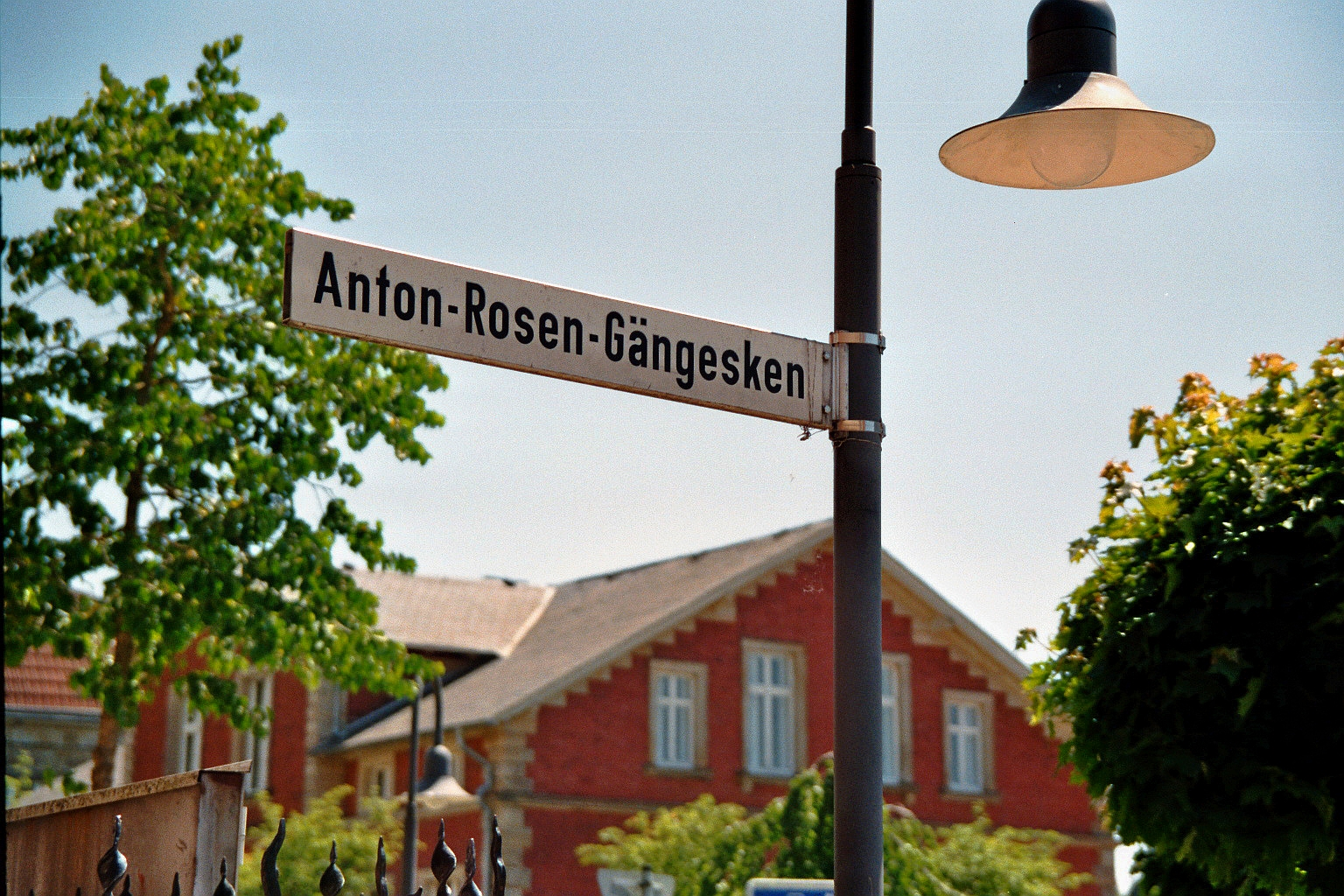 Anton-Rosen-Gängesken in the city centre of Ibbenbüren, Kreis Steinfurt, North Rhine-Westphalia, Germany.